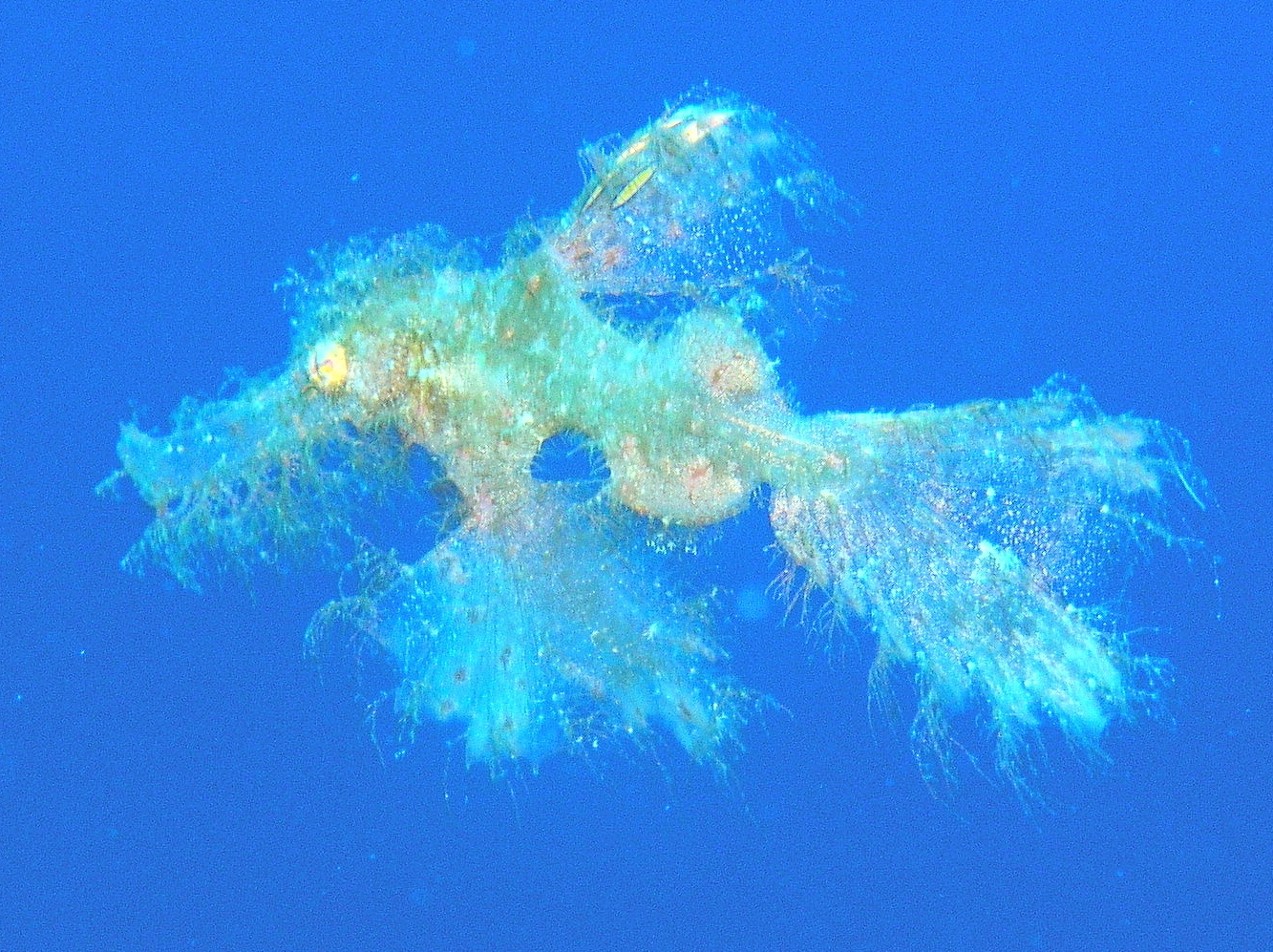 Robust, Blue-finned or Green Ghostpipefish (Solenostomus cyanopterus; paegnius) at Nosy Be, Madagascar